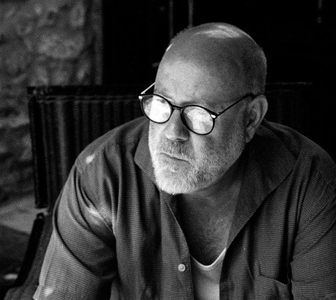 Marcus Reichert; photograph by Edward Rozzo